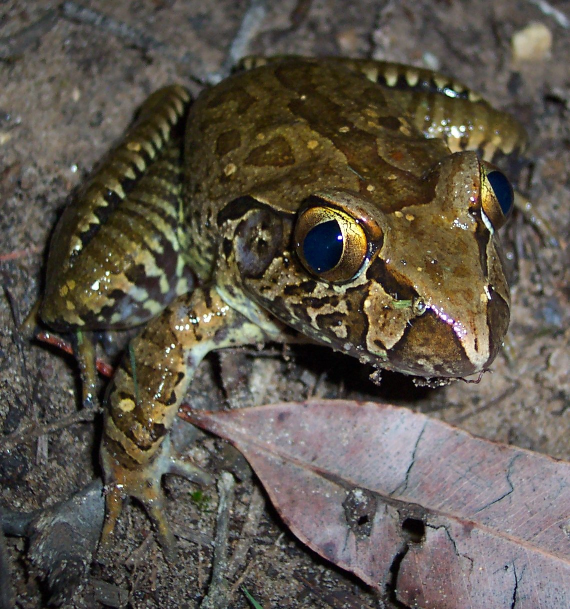 Mixophyes iteratus from the Watagans National Park, NSW. Showing distinct gold in upper half of iris.